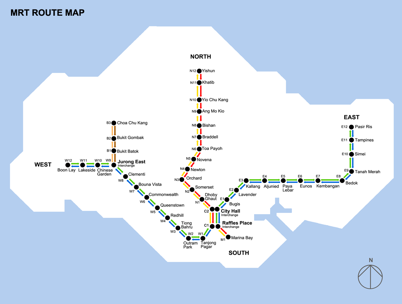 A recreation of the old Singapore MRT System Map, showing the MRT network in 1989-1996, before the Woodlands Extension opened. File by Calvin Teo December 2005